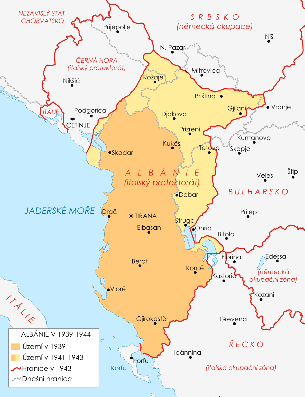 Map of Albania during WWII